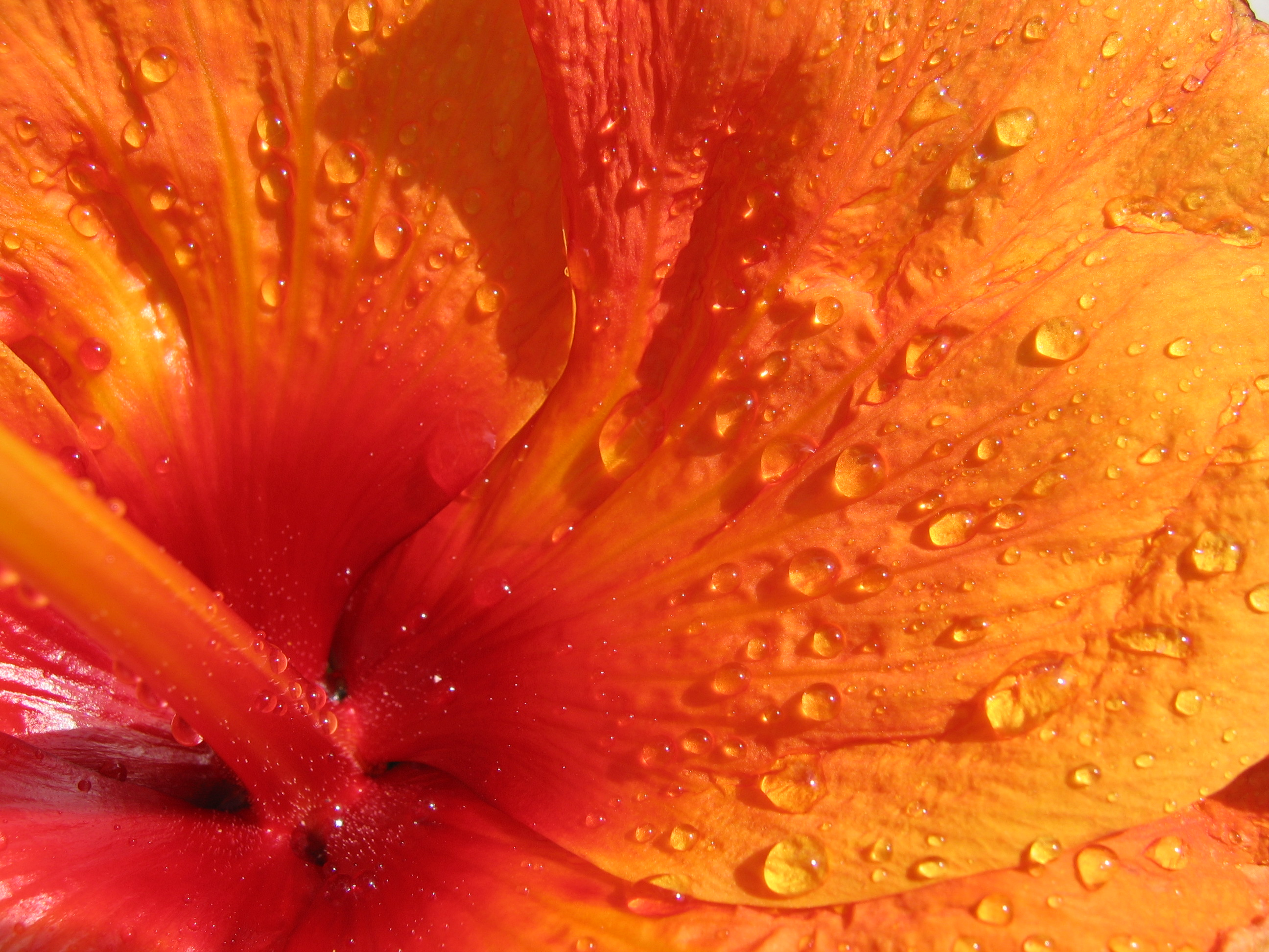 Close up of hibiscus petal, probably Hibiscus rosa-sinensis